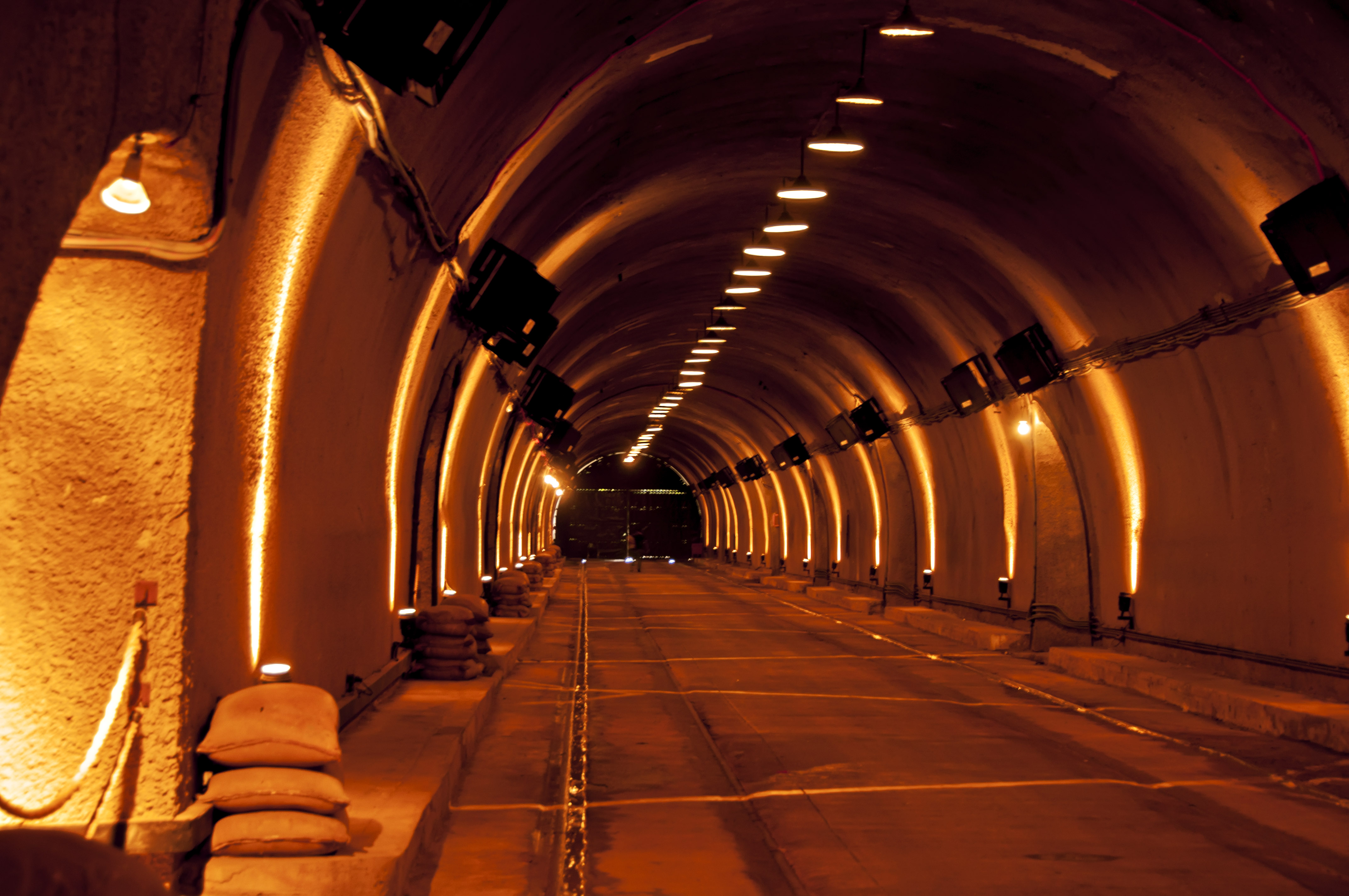 The Malinta Tunnel is a tunnel complex built by the Americans on the island of Corregidor.